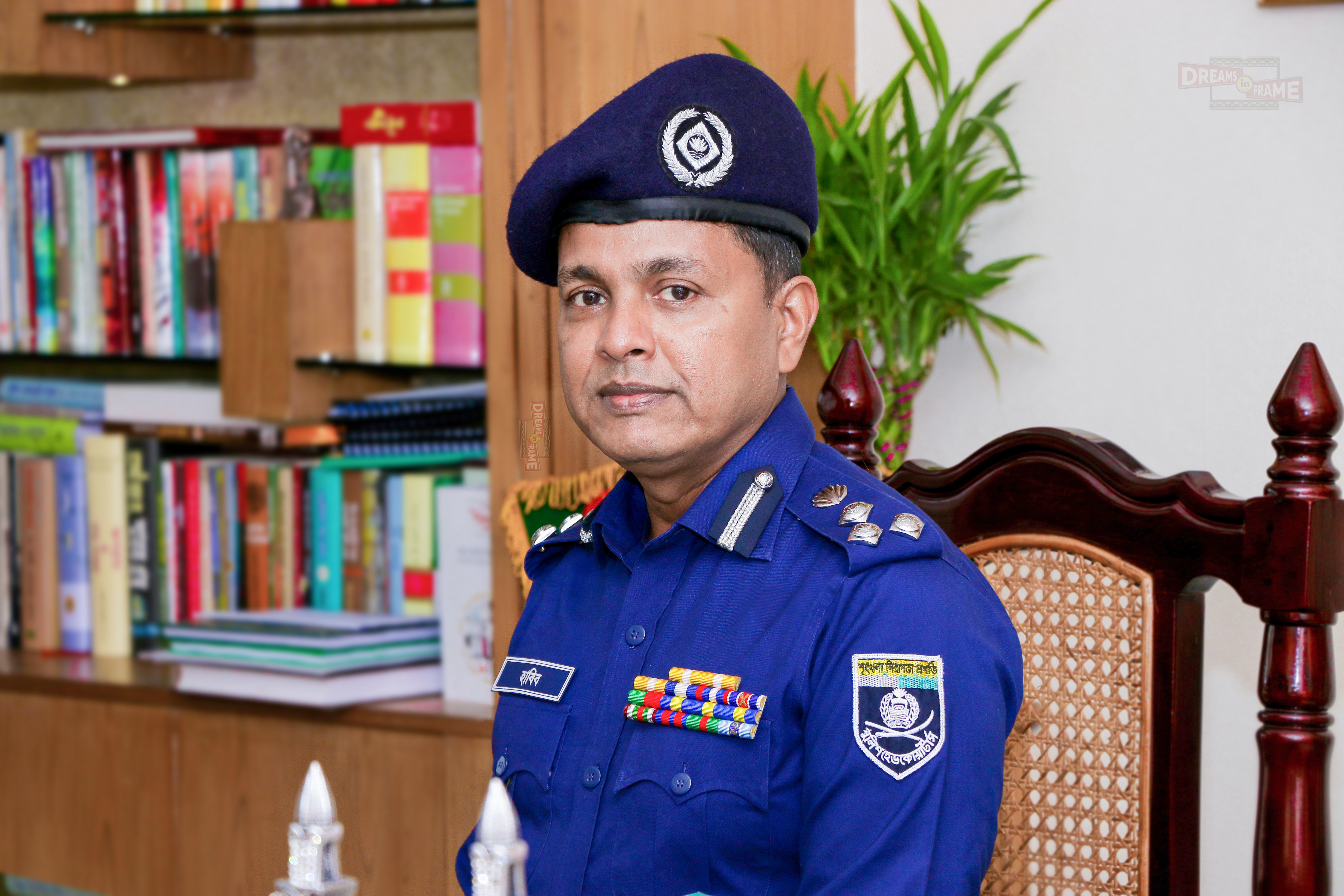 Deputy Inspector General Habibur Rahman is at police headquarters and is talking with journalists and media persons. He is talking about rehabilitation of Trans gender people in Bangladesh. He also talked about a film which is based on trans gender people, making by Dreams In Frame production house